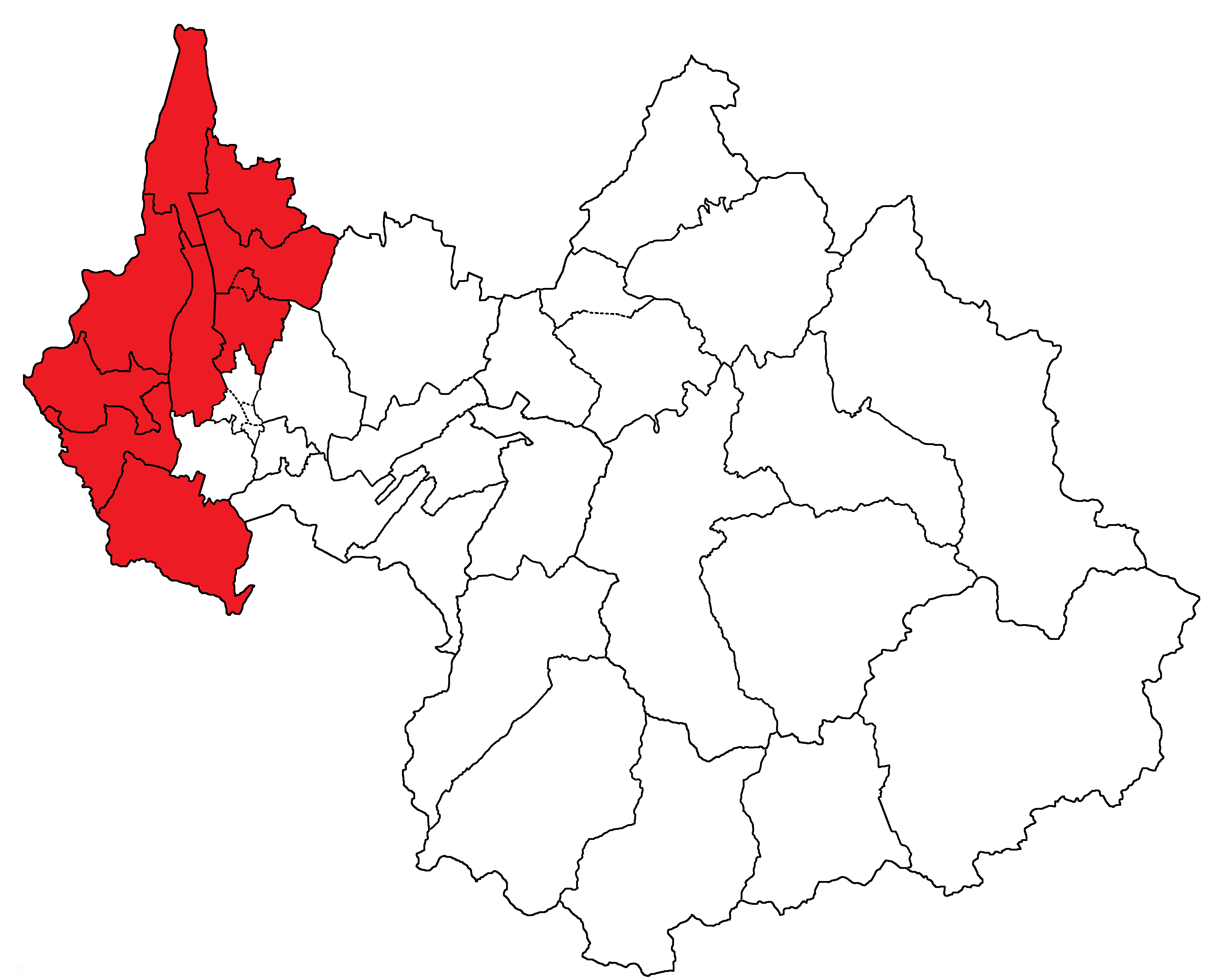 Map of the French department of Savoie. In red is the first electoral circonscription and its 10 cantons zones. Main city is Aix-les-Bains.